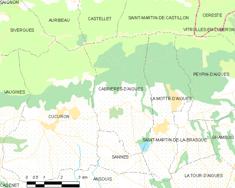 Map of French municipality Cabrières-d'Aigues